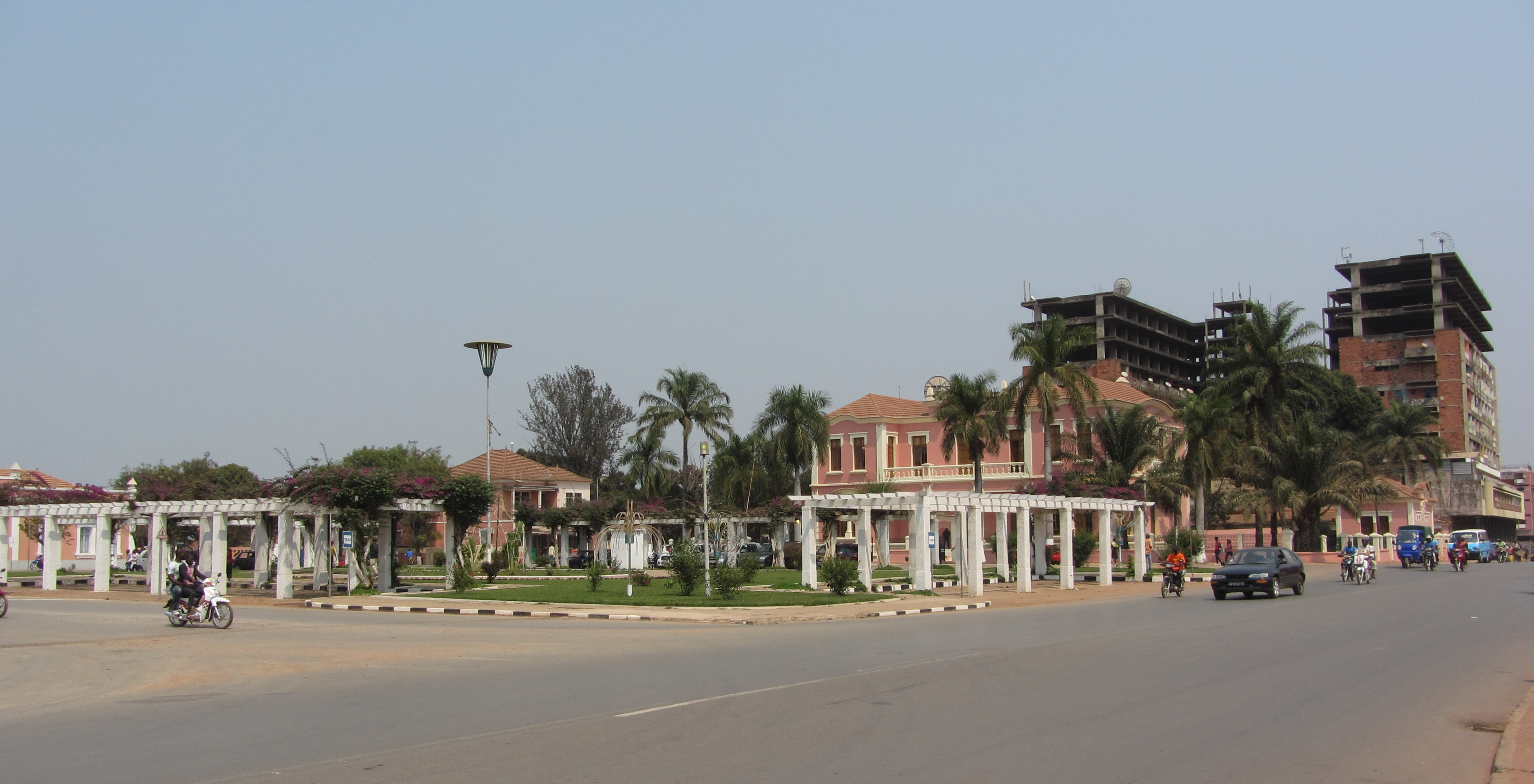 Malanje, Angola. City center